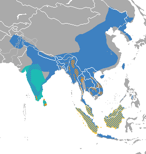 Derived from species maps.